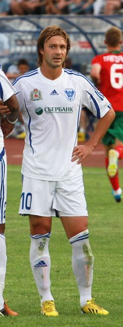 Dmitri Sychev playing for FC Volga Nizhny Novgorod.